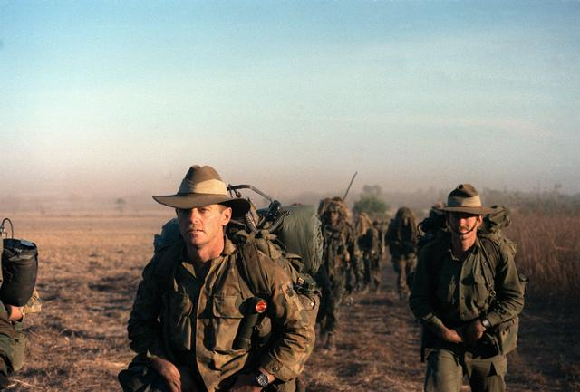 Sourced from: Details: ID: DASC9101854 Service Depicted: Multi-National Two Australian army soldiers lead a column of American troops from 4th Bn., 87th Inf., 25th Inf. Div. (Light), during the joint Australian/U.S. exercise Kangaroo '89. Camera Operator: AL CHANG Date Shot: 7 Aug 1989